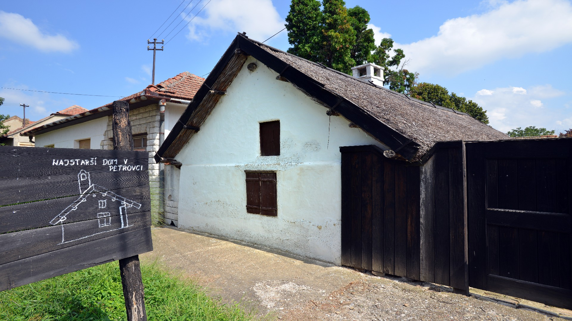 Oldest house in Bački Petrovac, street view